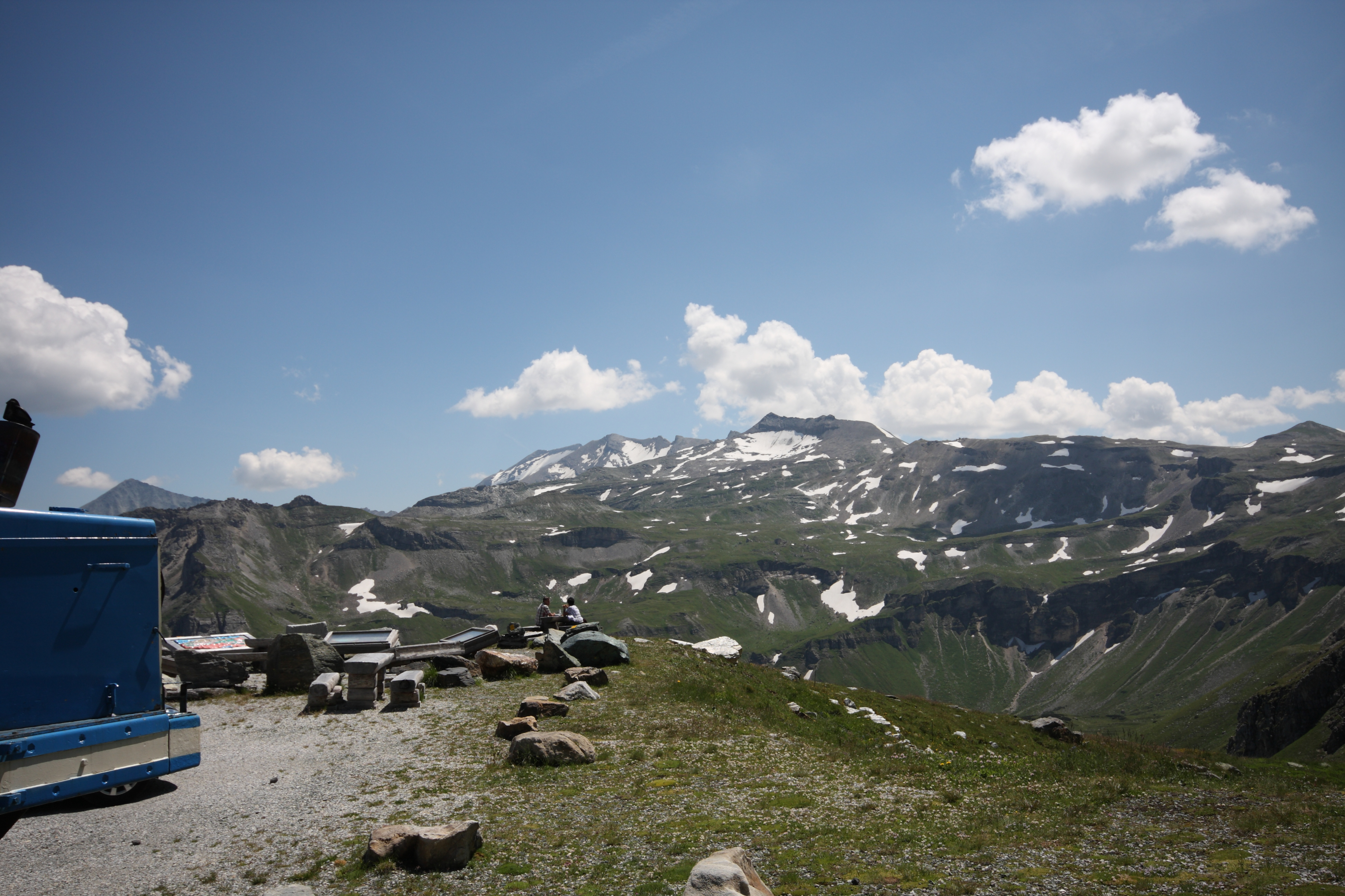 Grossglockner High Alpine Road, Austria